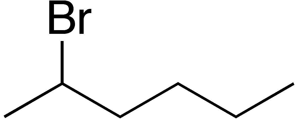 chemical structure of 2-bromohexane